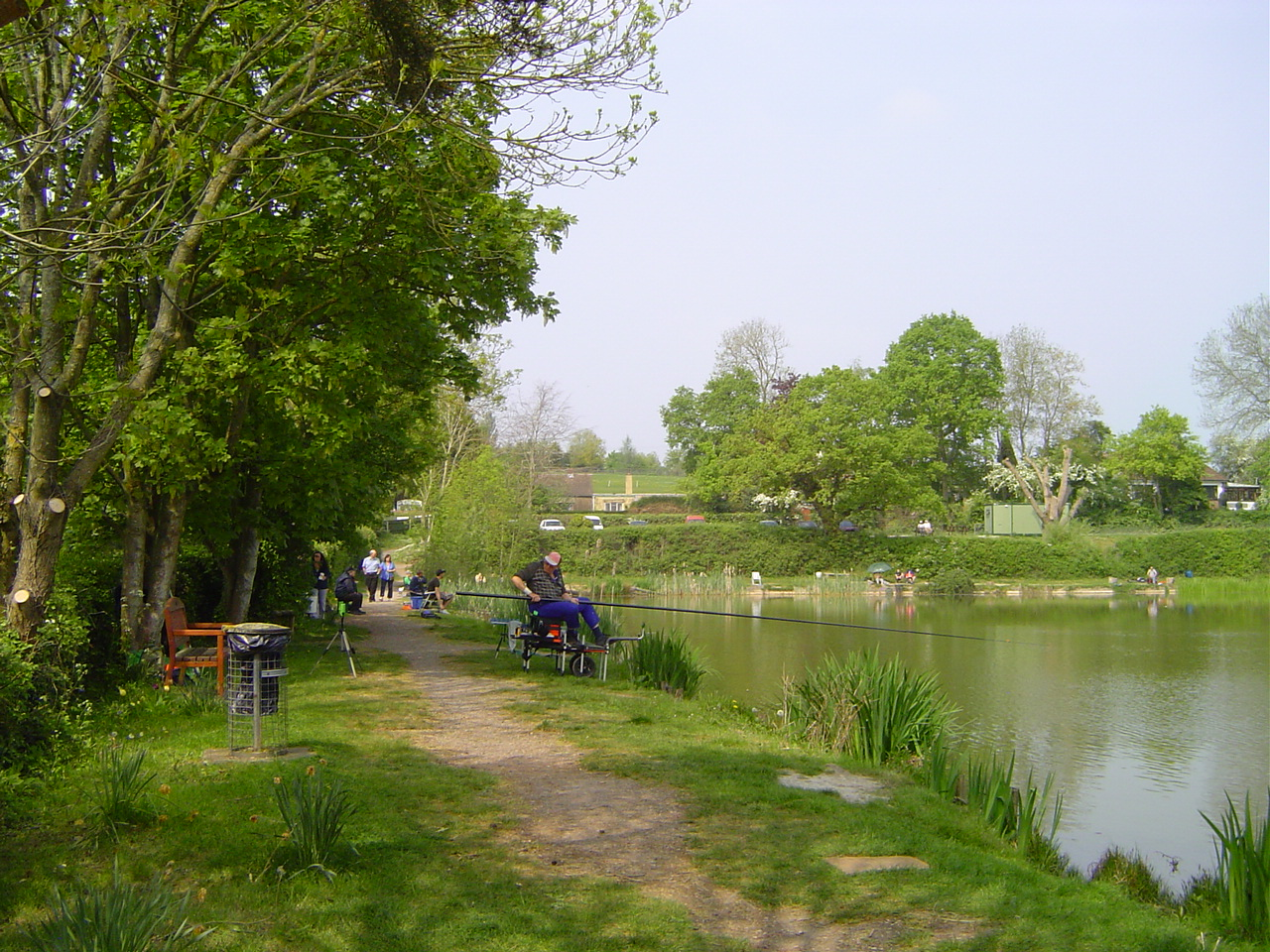 Bitterwell Lake - a community resource